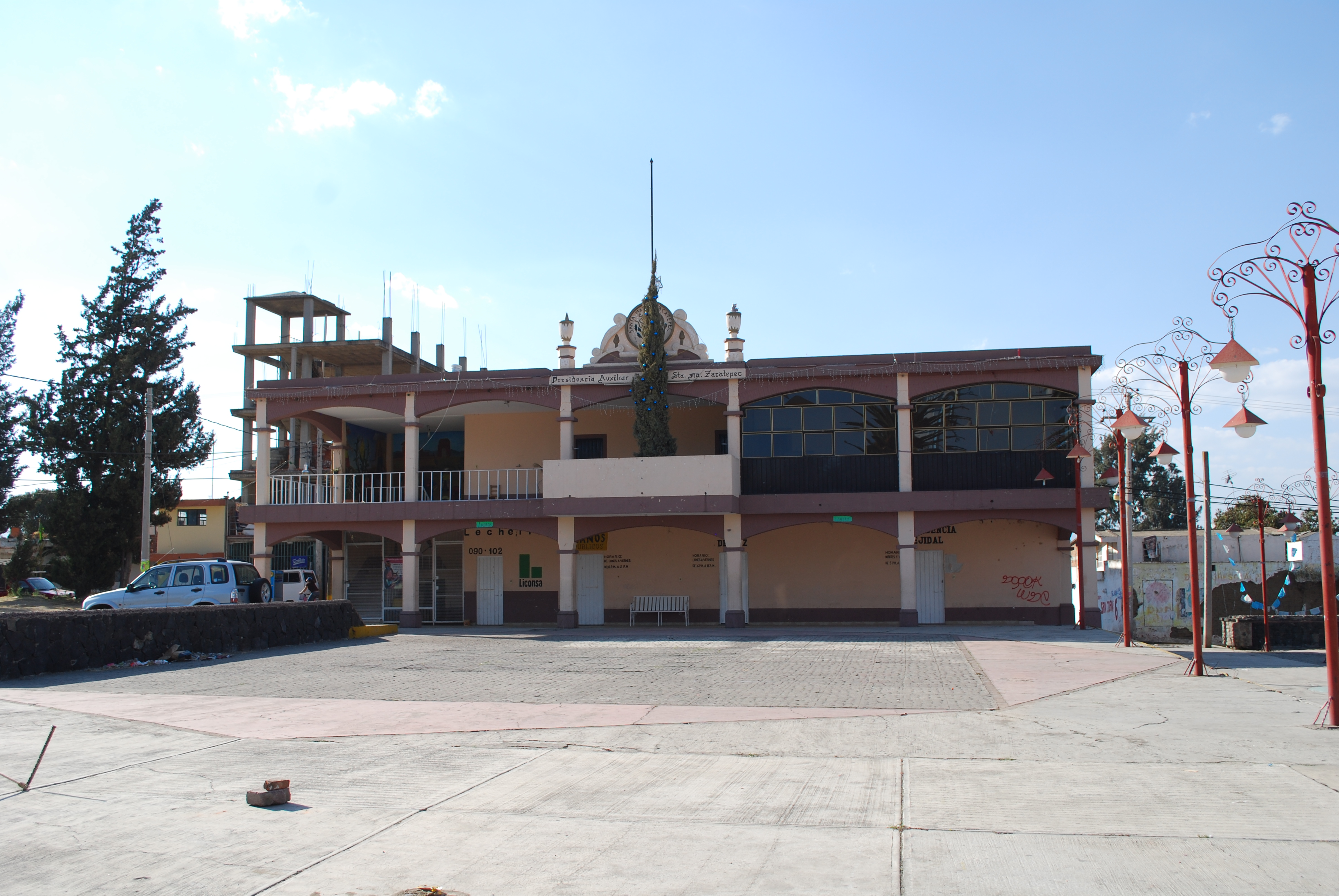 Auxiliary municipal offices in Santa Maria Zacatepec, Puebla, Mexico